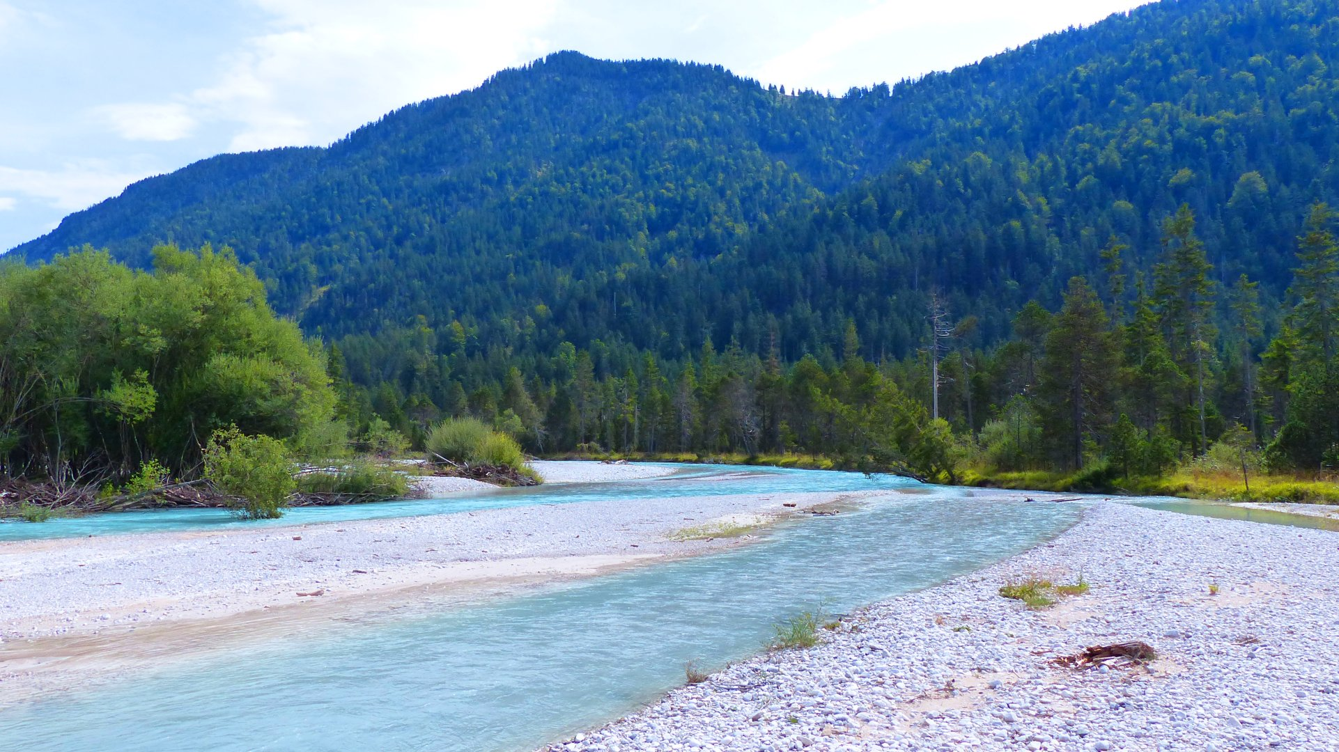 Isar valley between Wallgau and Vorderriß (Upper Bavaria)